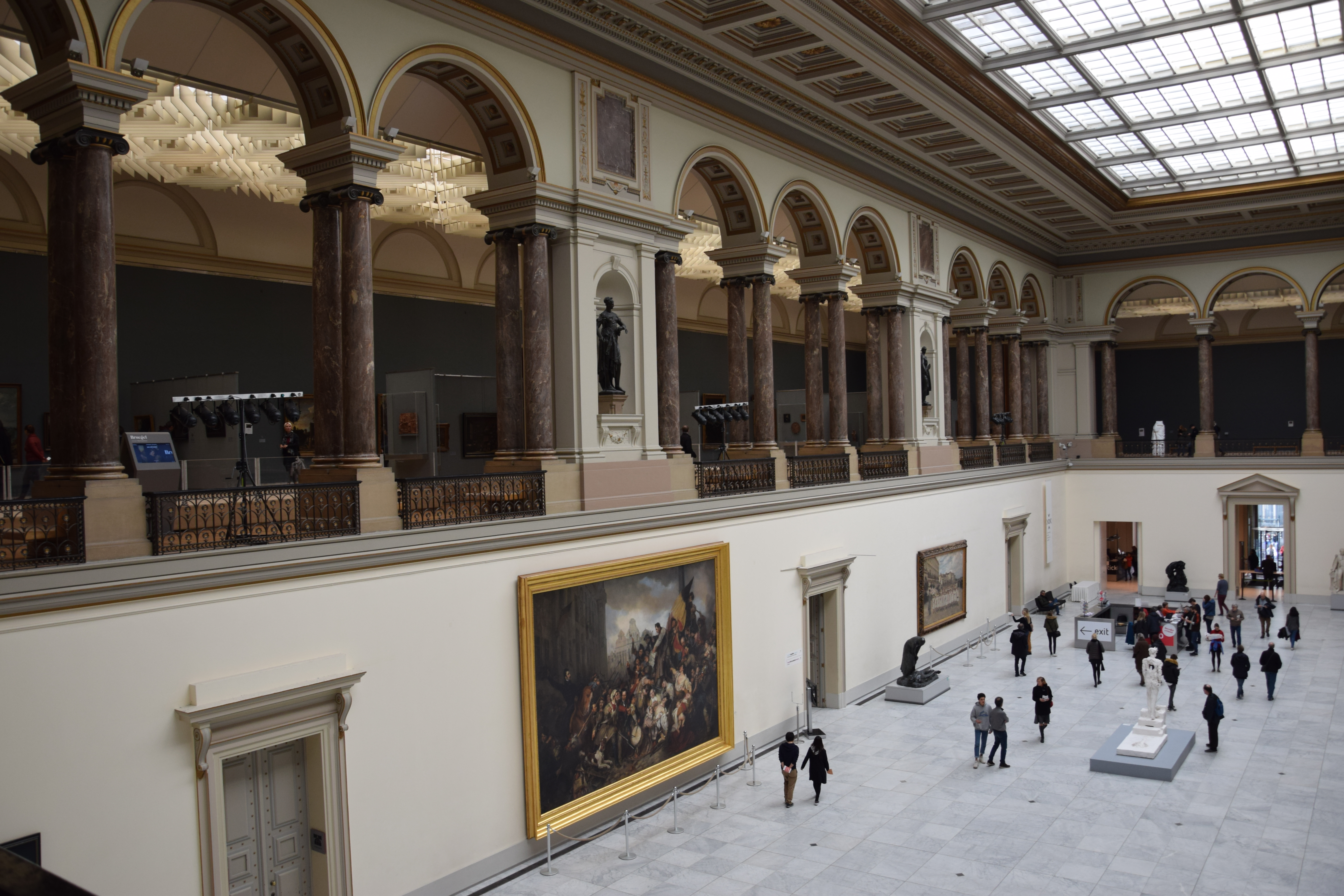 Interiors of the Royal Museums of Fine Arts in Belgium